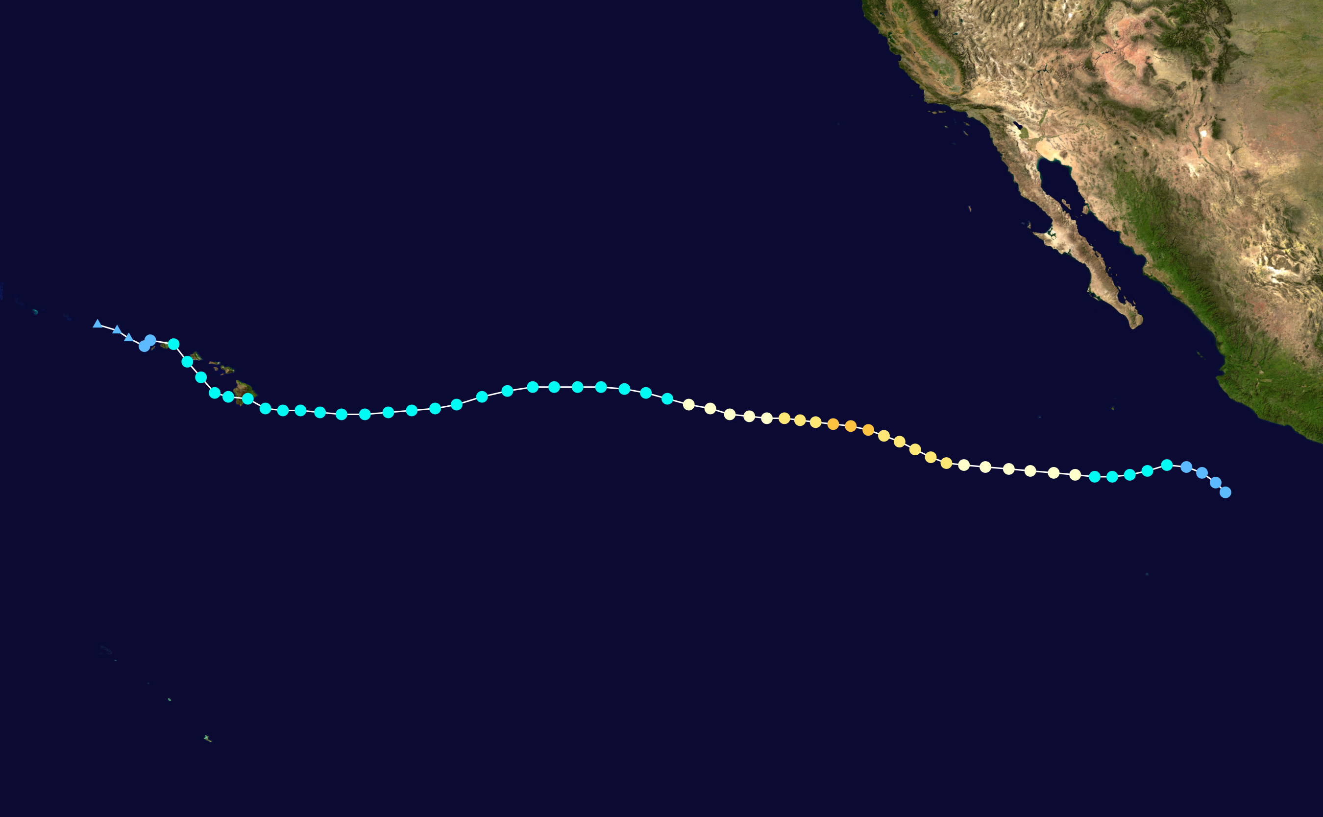 Track map of Hurricane Darby of the 2016 Pacific hurricane season. The points show the location of the storm at 6-hour intervals. The colour represents the storm's maximum sustained wind speeds as classified in the Saffir–Simpson scale (see below), and the shape of the data points represent the nature of the storm, according to the legend below. Saffir–Simpson scale Tropical depression≤38 mph≤62 km/h Category 3111–129 mph178–208 km/h Tropical storm39–73 mph63–118 km/h Category 4130–156 mph209–251 km/h Category 174–95 mph119–153 km/h Category 5≥157 mph≥252 km/h Category 296–110 mph154–177 km/h Unknown Storm type Tropical cyclone Subtropical cyclone Extratropical cyclone / Remnant low / Tropical disturbance / Monsoon depression